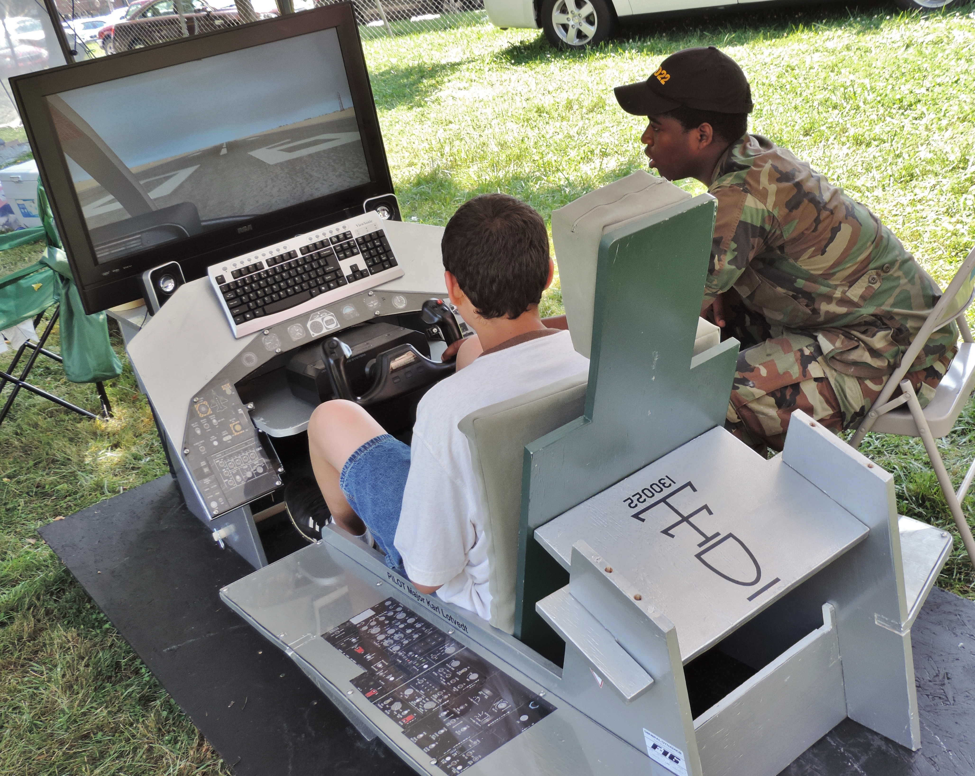 A member of the public uses a flight simulator while supervised by a Civil Air Patrol cadet at the 2013 Dundalk Heritage Fair in Maryland. The annual, summer holiday time, Heritage Fair is a World Class Venue for outdoor concerts; it also has - all day for 3 days - great: fun, food, crafts shopping, community and local history booths, some carnival rides and games, and more. Go early and stay late, in tree shaded and grass carpeted Dundalk Heritage Park.